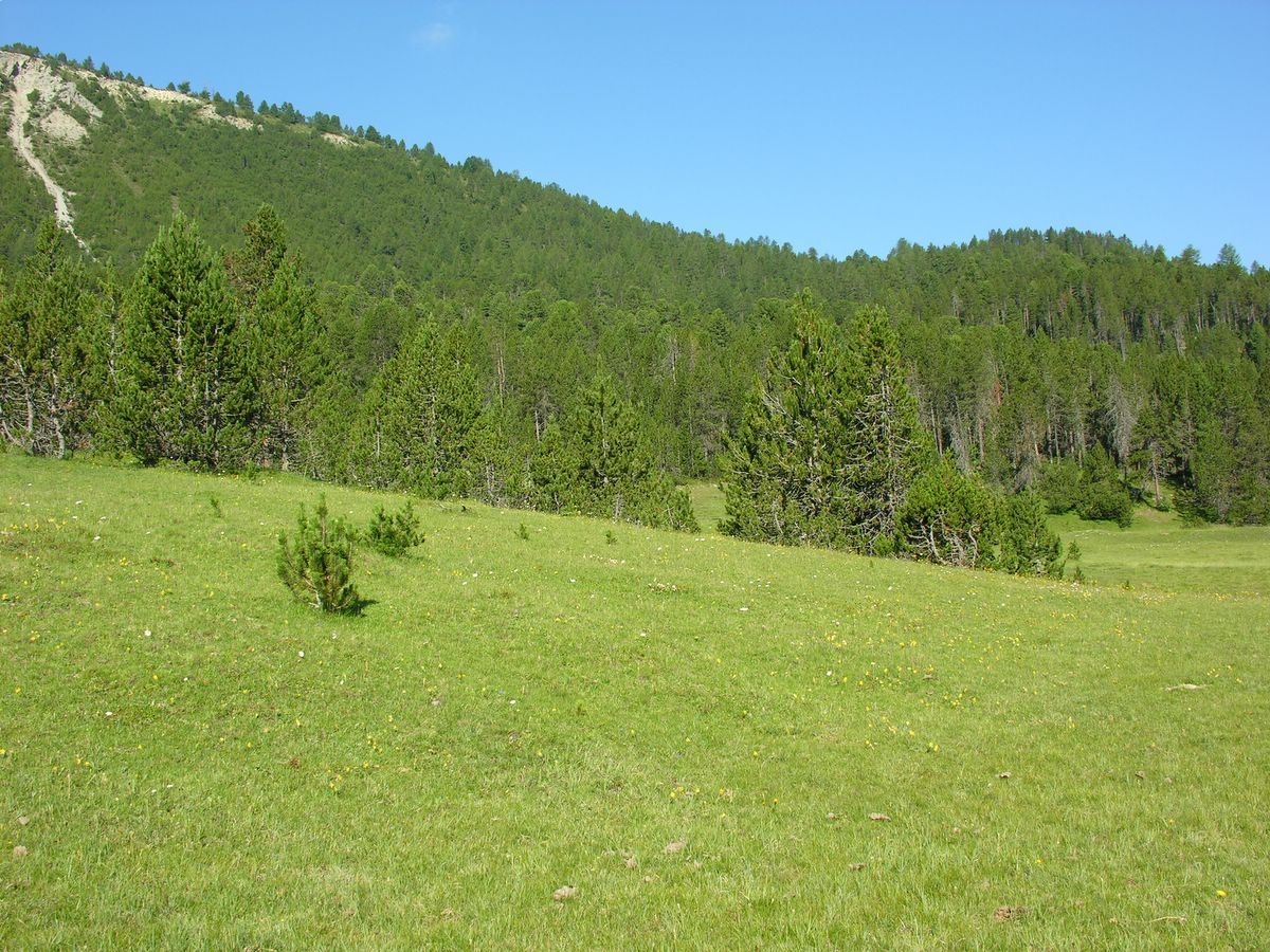 Swiss National Park